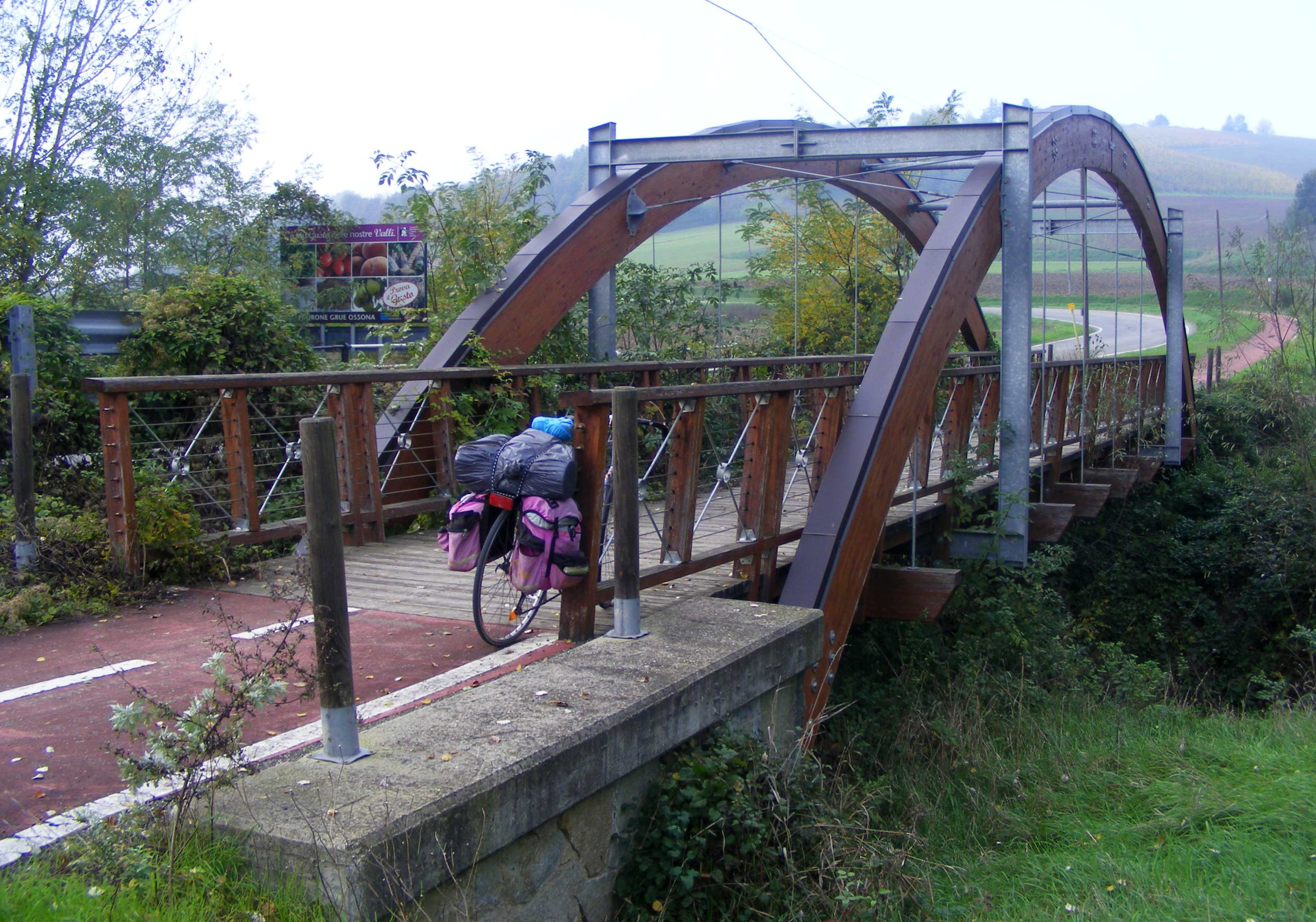 Bridge on rio del Gerbino (provincial road of Ossona (Villaromagnano, AL, Italy)